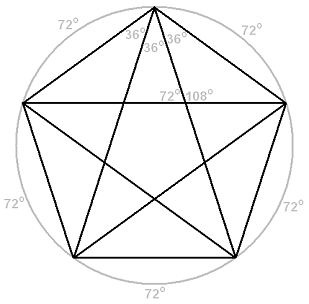 In a pentagram and pentagon all angles are calculated.